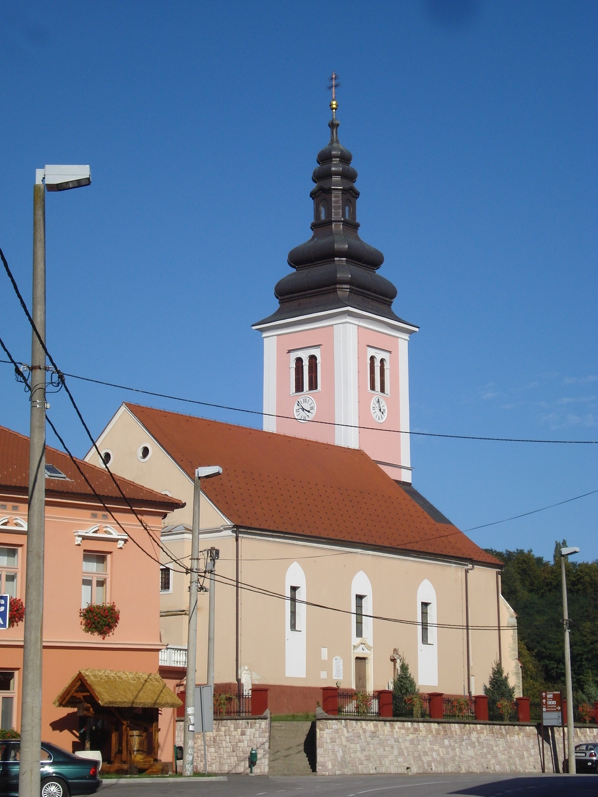 Saint Mary Magdalene Parish Church in Štrigova, Medjimurje County, Croatia